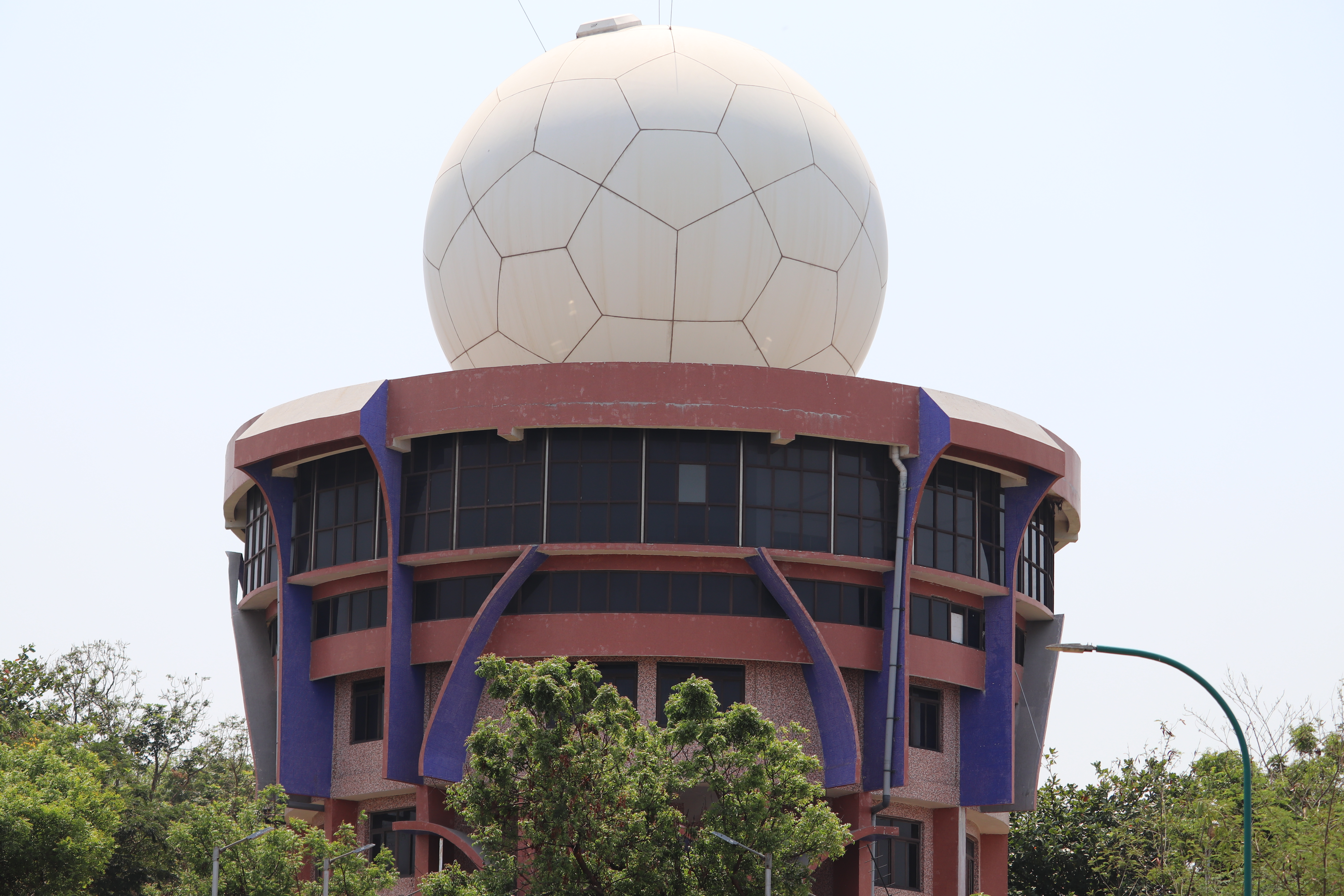 Doppler Weather Radar Station on the hilltop of Kailasagiri in the city of Visakhapatnam (Andhra Pradesh, India), to monitor cyclones and monsoon in the Bay of Bengal